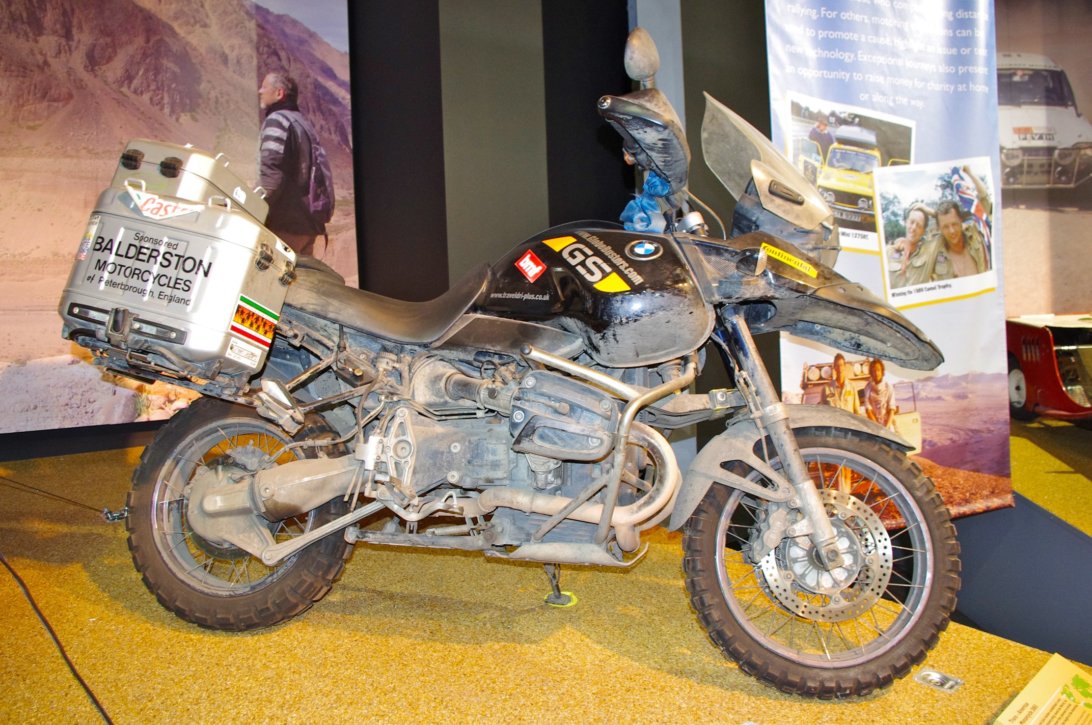 Used by Kevin & Julia Sanders to break the record (47 days) for the 17,000 mile journey from the top of Alaska to the tip of South America National Motor Museum, Beaulieu